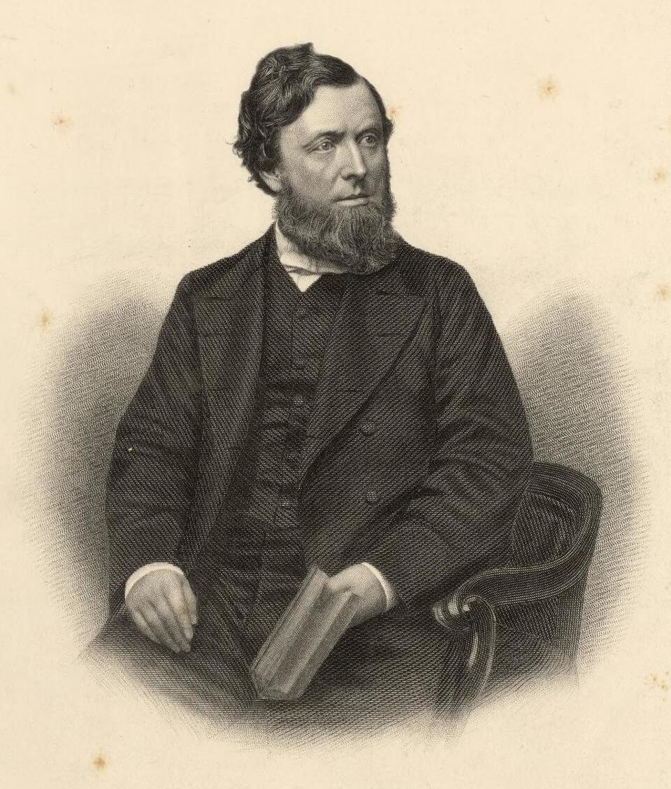 A portrait from the Welsh Portrait Collection at the National Library of Wales. Depicted person: Thomas William Davids – Welsh nonconformist minister and ecclesiastical historian